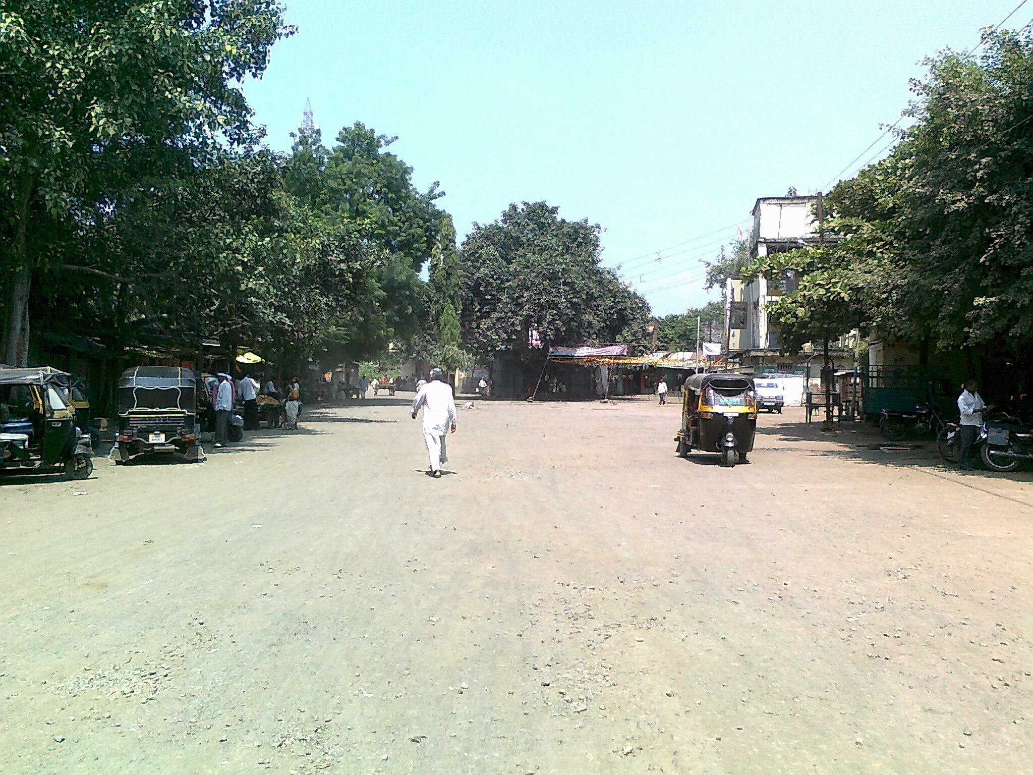 Pic showing bus and auto-rikshaw stop and other cultural things of Maharashtrian village at Chinawal village, India